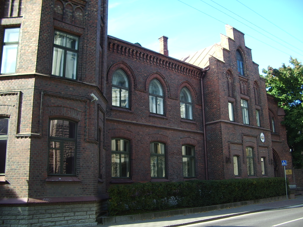 Embassy of Latvia in Tallinn, Tõnismägi 10